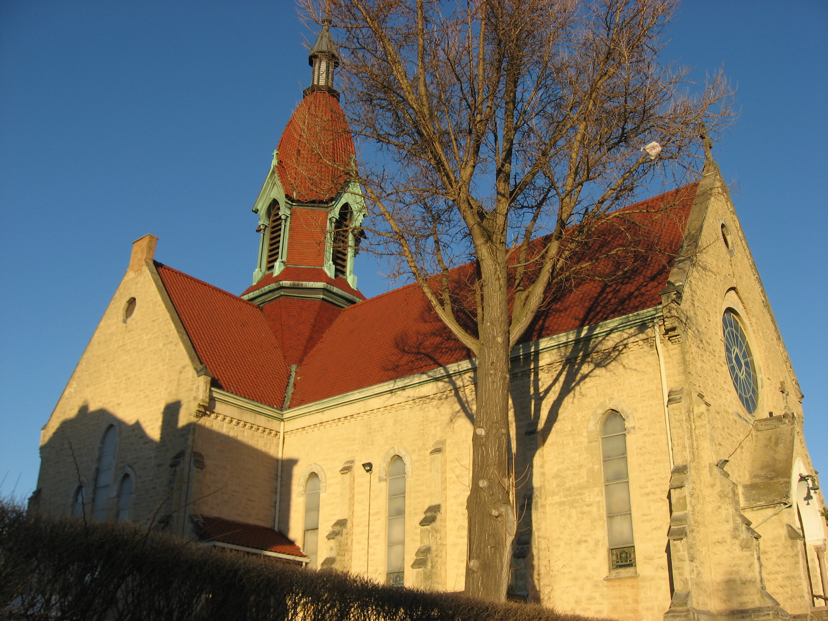 Front and western side of St. Pius X Catholic Church (formerly St. Patrick's Catholic Church), located at 1662 Blue Rock Street in the Northside neighborhood of Cincinnati, Ohio, United States. Built in 1873, it is listed on the National Register of Historic Places.